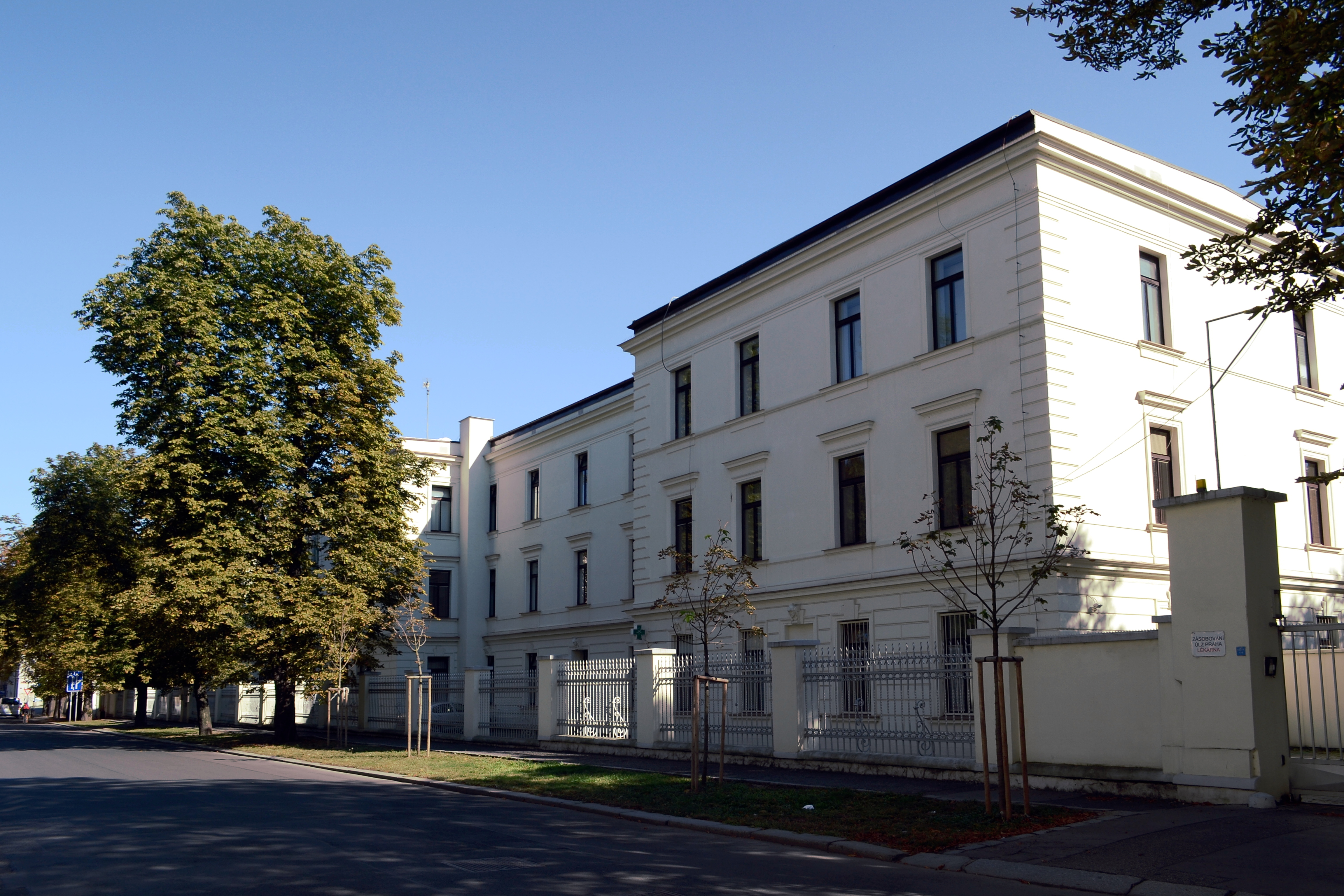 Building of the Institute of Aviation Medicine of the Czech Army, Generála Píky 229/1, Prague, Czech Republic.